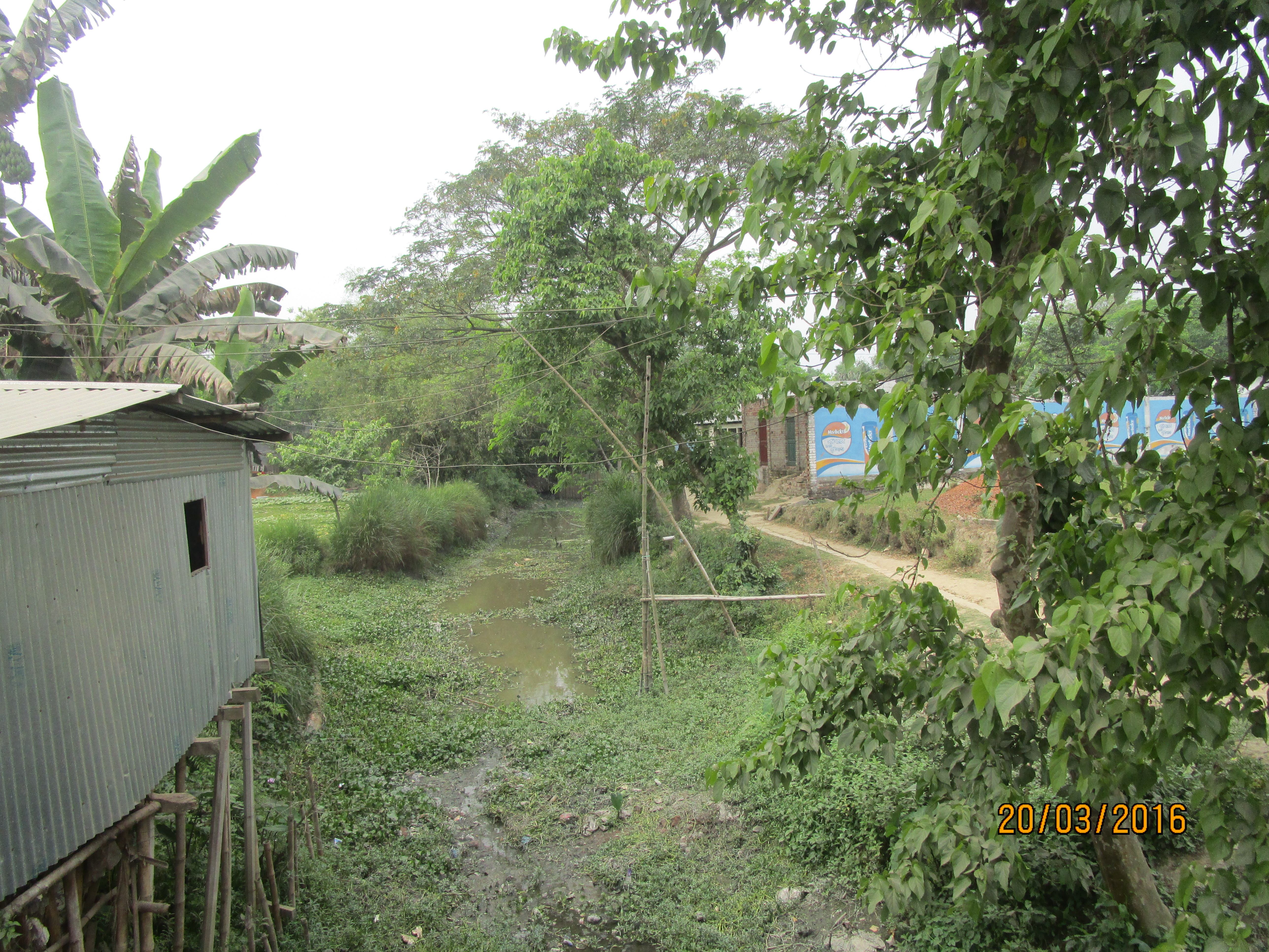 Nageshwari River upstream side at Deokhola bazar